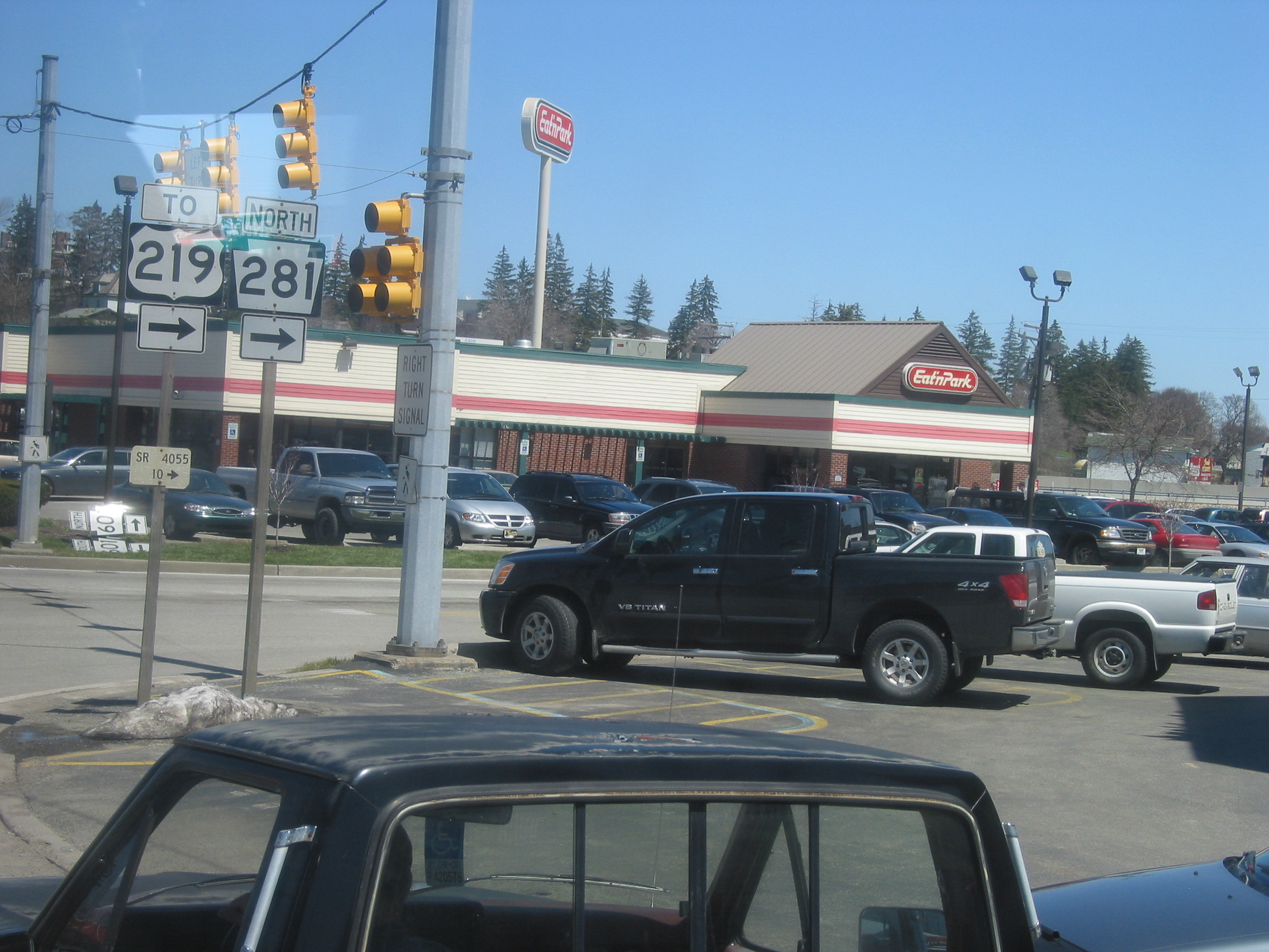 PA 281 turns right at the eastern terminus of the one-way pair in Somerset. View from PA 31. A "TO US 219" sign is also on the PA 281 sign assembly.